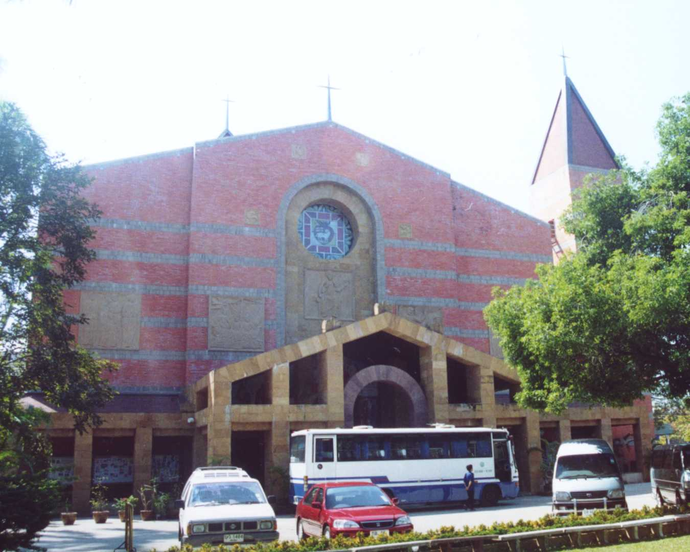 Roman Catholic Cathedral of the Sacred Heart (อาสนวิหารพระหฤทัย) in Chiang Mai, Thailand. Photo taken by User:Ahoerstemeier of February 3 2006.